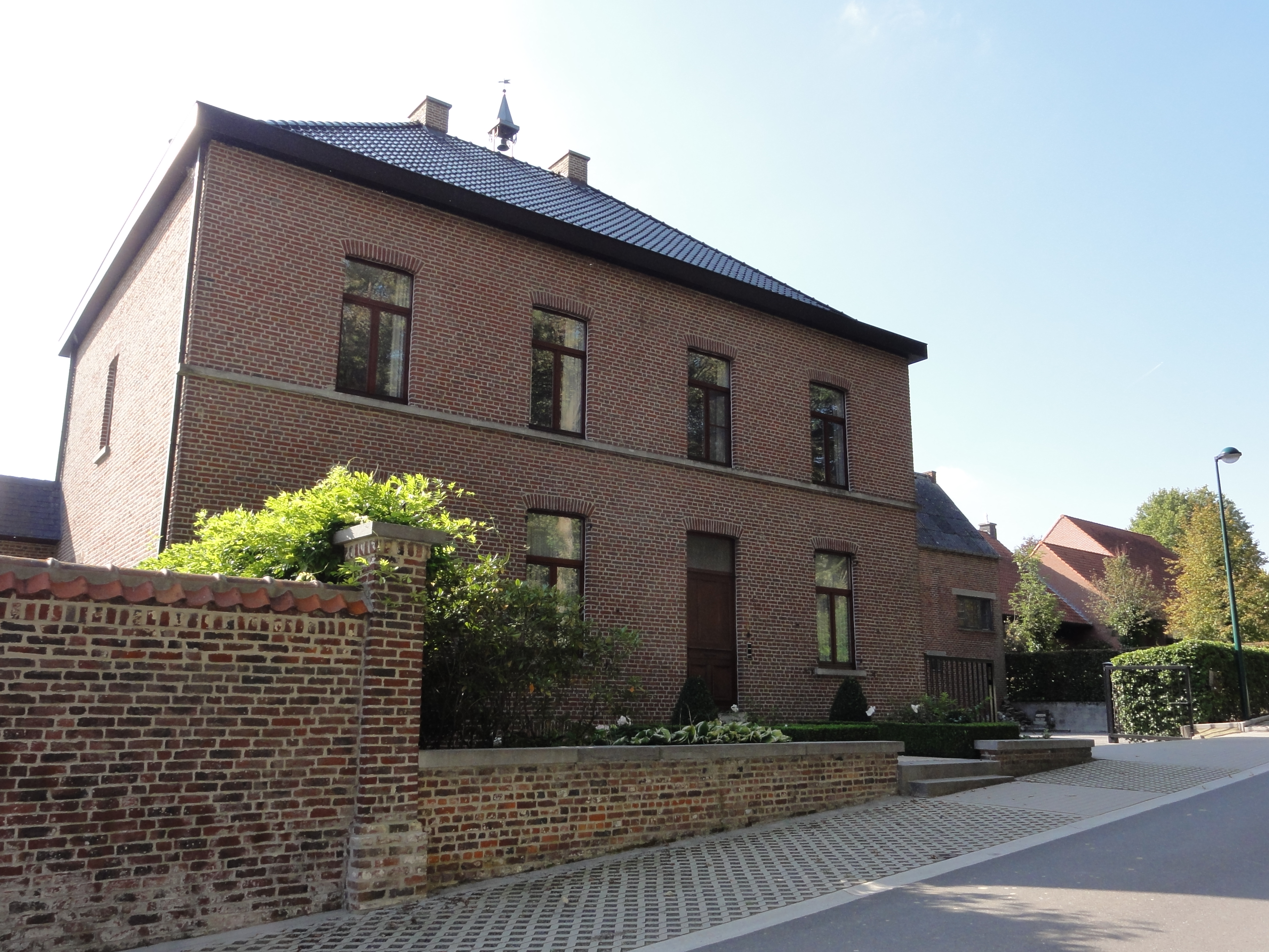 Former brewery Tsjoen in Wannegem. Wannegem, Wannegem-Lede, Kruishoutem, East Flanders, Belgium